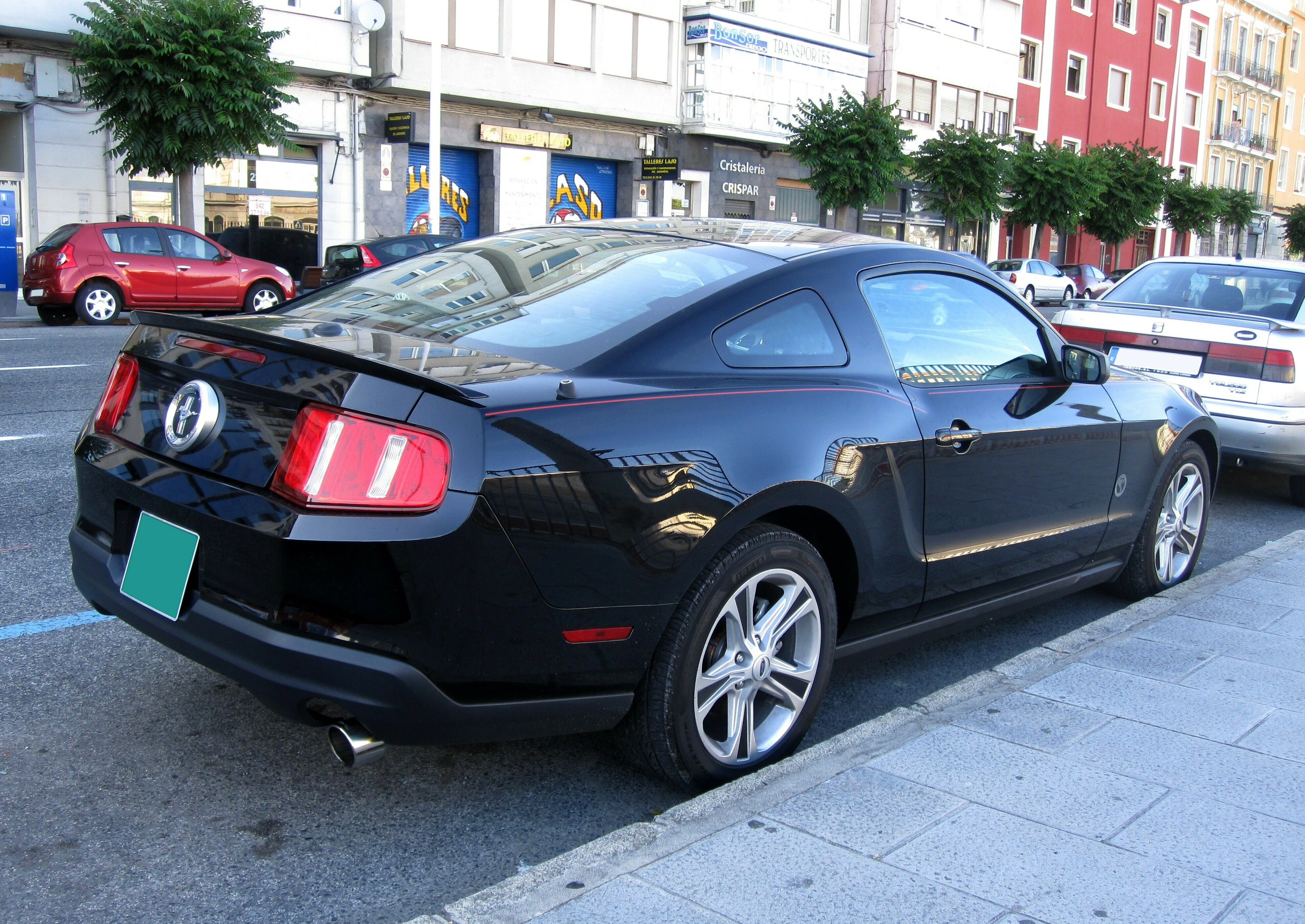 Drooling... I love it!!! I was so glad to see a brand new Mustang so soon, it's great, this one looked fantastic in black and with those alloys. No front grill lights make it a base V6, right? Which I don't mind anyway cause it still looks fantastic, not sure how it would do on the road but oh well! Still on green plates, so very recently imported. Was seen in Santander (Cantabria).